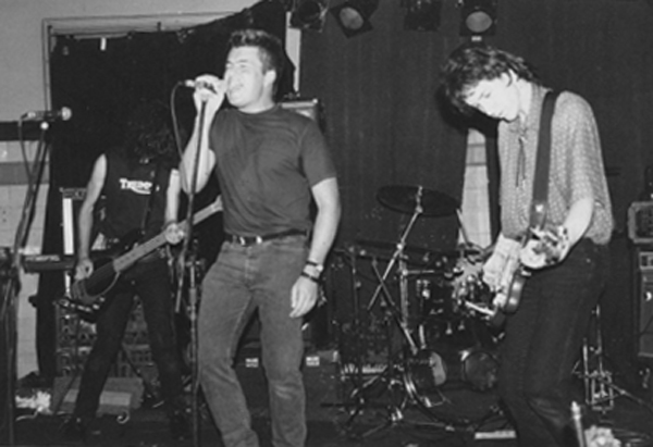 The Faith (Australian Band) performing at the Annandale Hotel, Sydney in Late 1988, From L to R Scott Millard, Alan White, Chris Briggs, Jonathan Purcell